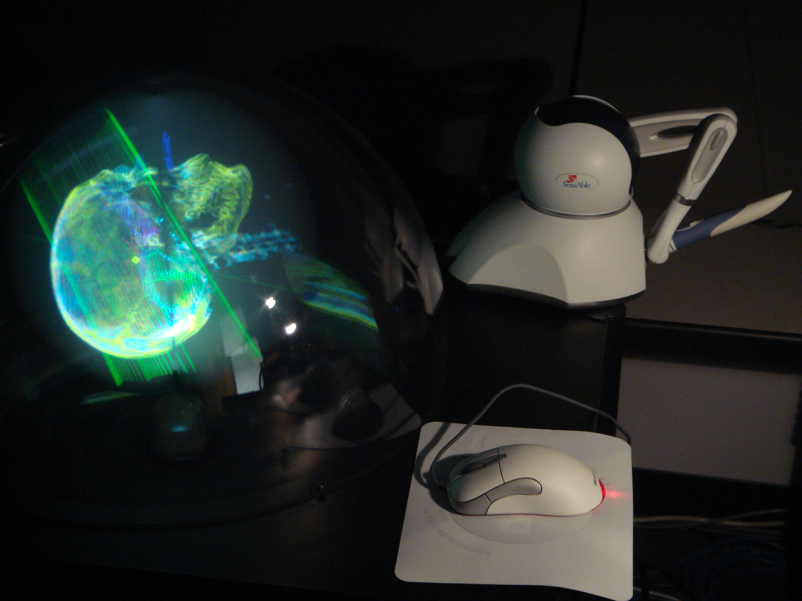 This is a photograph of a volumetric three-dimensional display, a haptic interface, and a traditional computer mouse. The volumetric display is Perspecta (from Actuality Systems, Inc.), showing a 10" (25 cm)-diameter approximately spherical image of an external beam radiation oncology treatment plan in PerspectaRAD. The haptic interface is the PHANTOM Omni (SensAble Technologies, Inc.). The photograph was taken by Gregg Favalora of Actuality Systems. Feel free to use or link to this photo. We would appreciate the caption including text such as, "Photograph of the Perspecta volumetric display courtesy Actuality Systems, Inc."